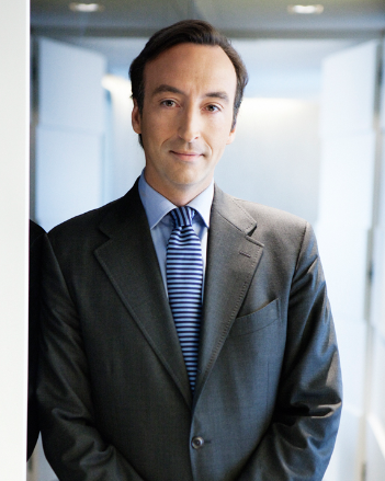 Marco Auletta, CEO of MP &Silva, corporate photo taken in Milan in 2010